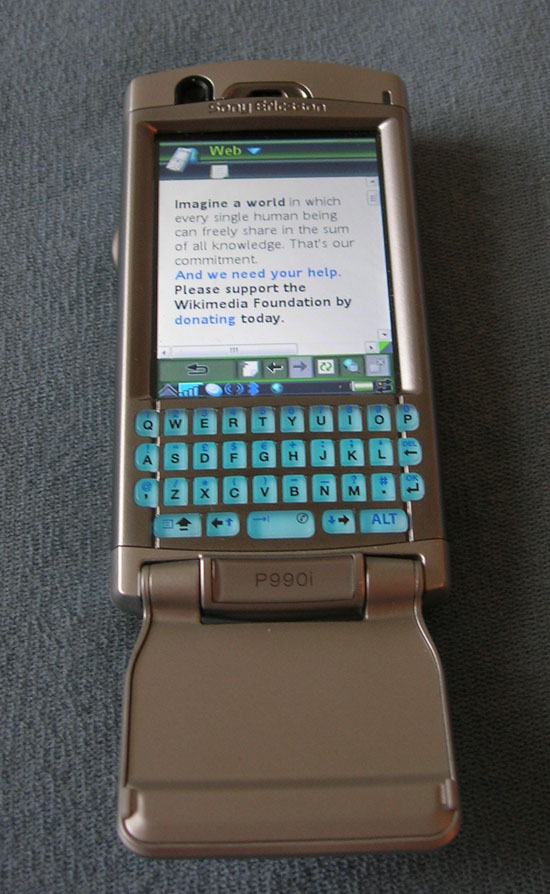 Sony Ericsson P990i